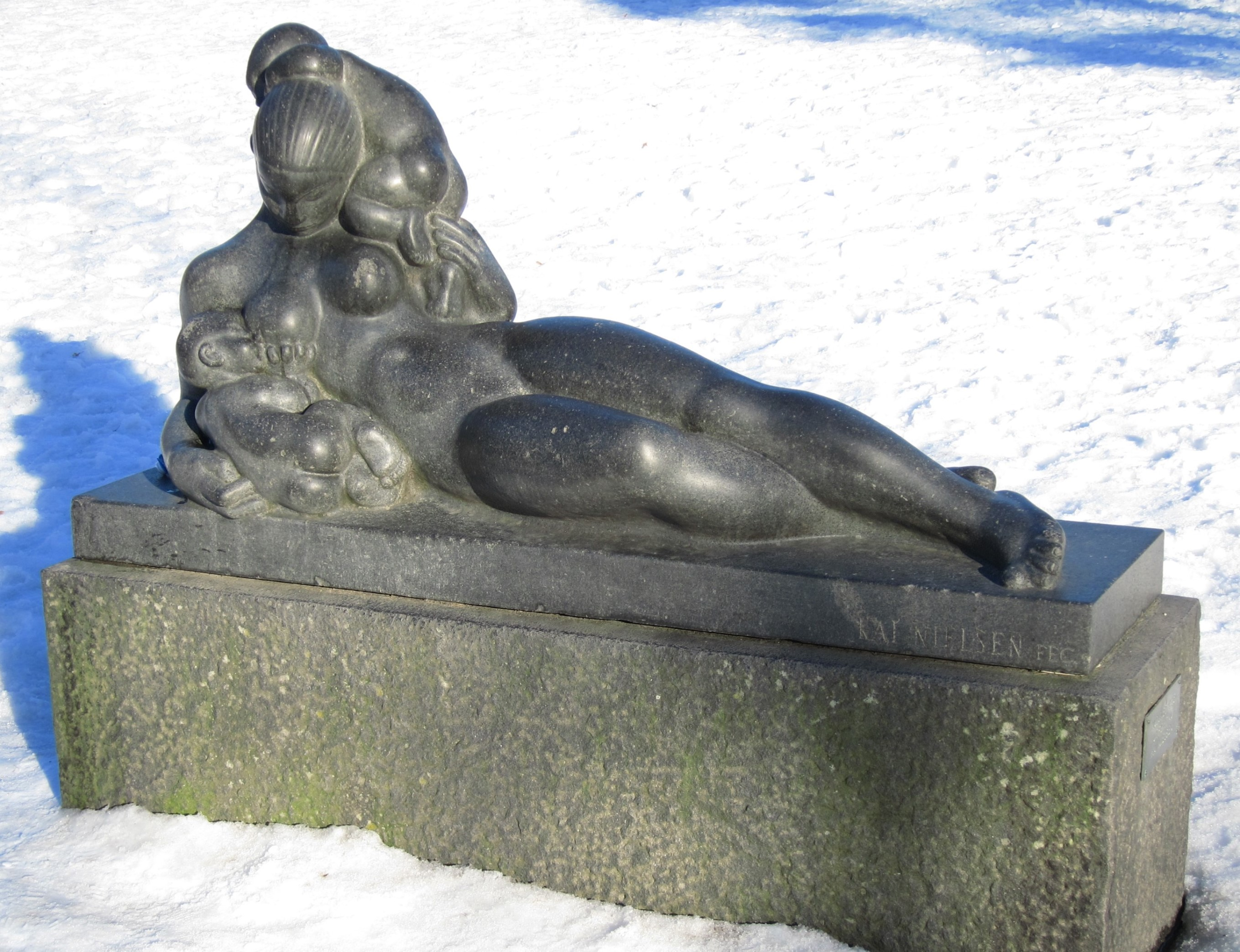 Kai Nielsen (1882-1924): "Mor og barn" ("mother and children"), black granite, permanent display in Frogner Park, Oslo